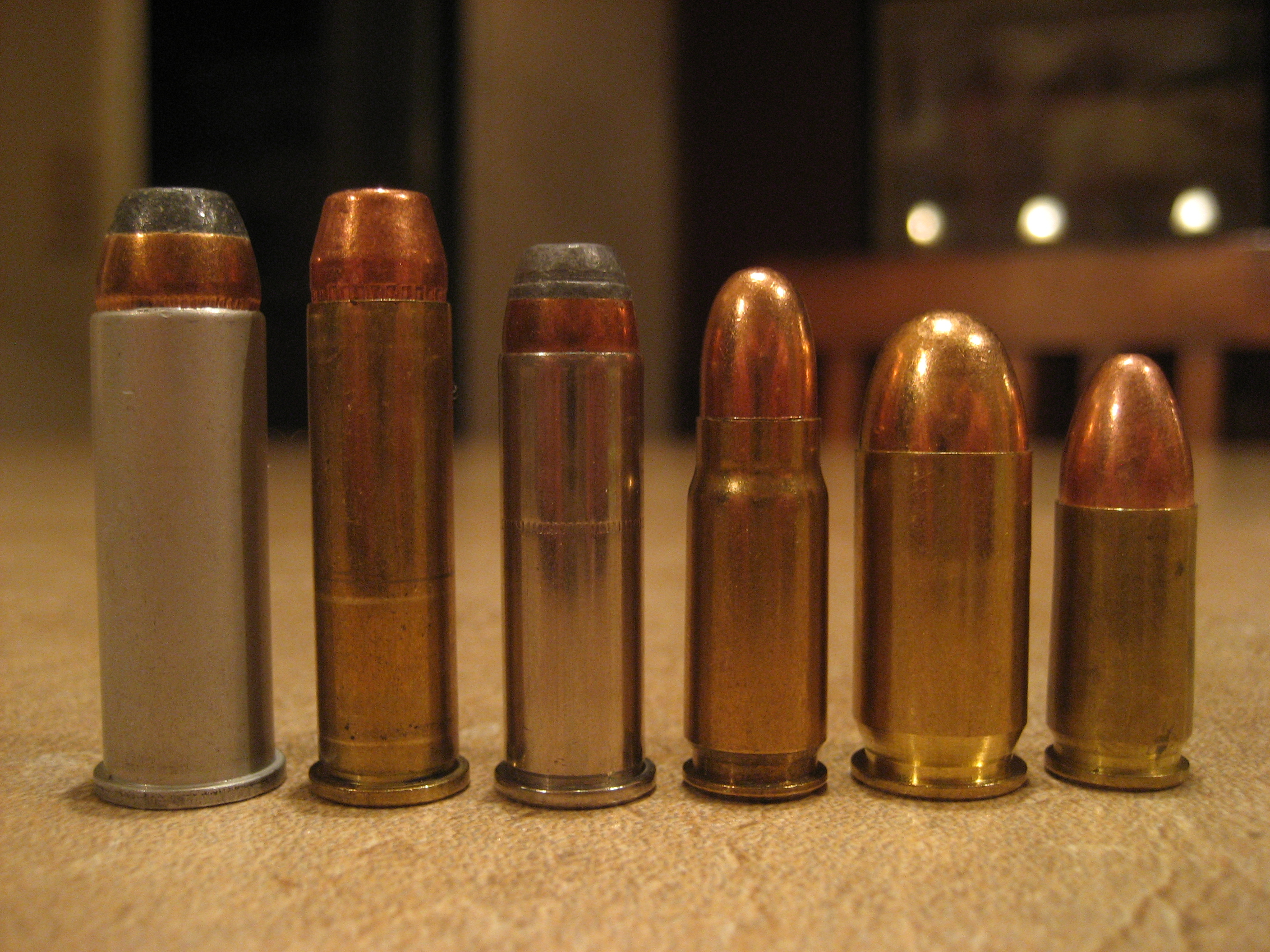 Comparison including 38 Special. (Starting from Left) .44 Remington Magnum, .357 Magnum, .38 Special, 7.62x25 Tokarev, .45 Auto, 9x19 Parabellum. Notice the similarity in the .38 Special and .357 Magnum.